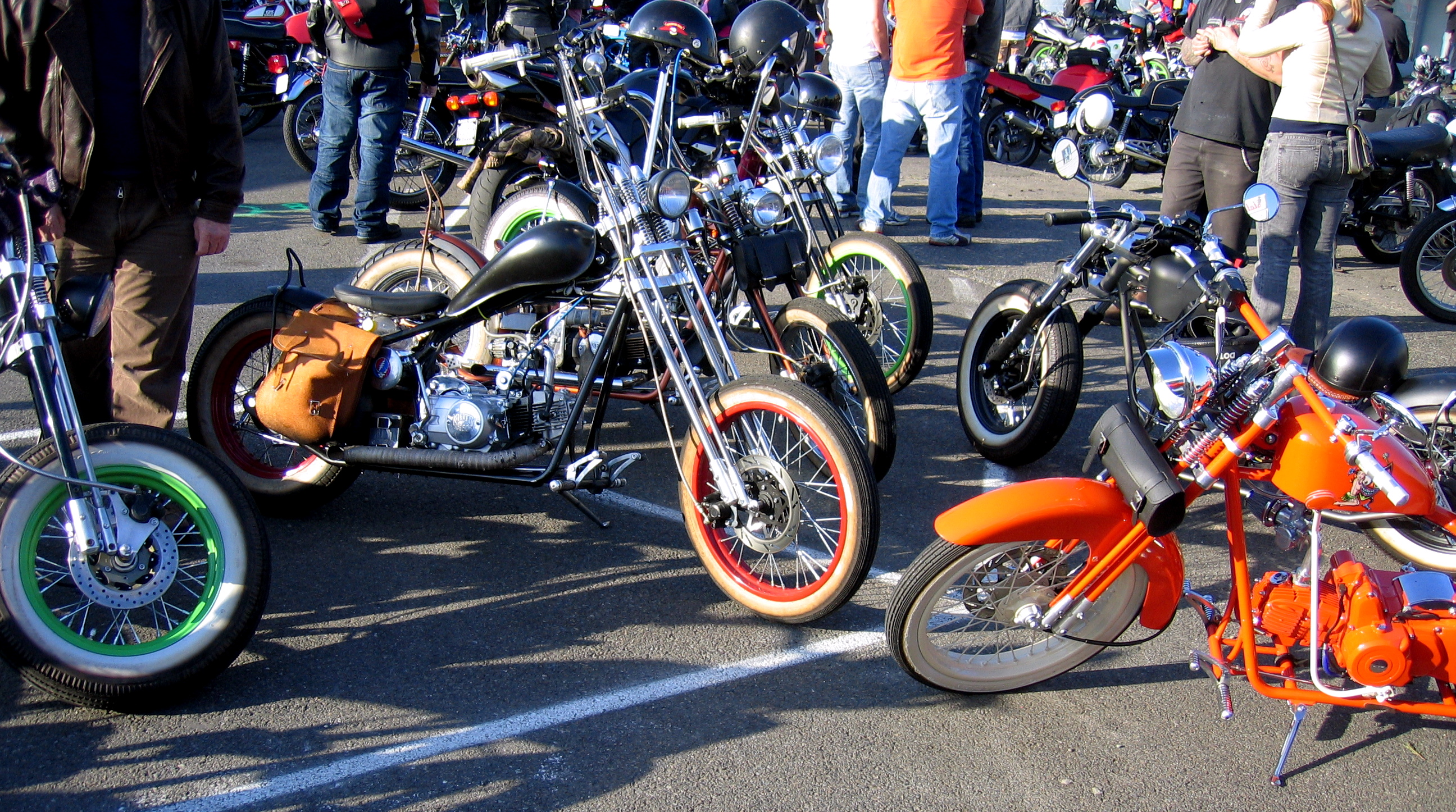 Mini choppers at Backfire Bike Night. The BIT Saloon and The Station, 4910 Leary Ave NW in Ballard, Seattle WA.